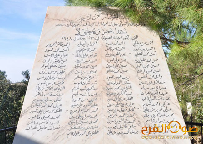 Plaque showing commemoration